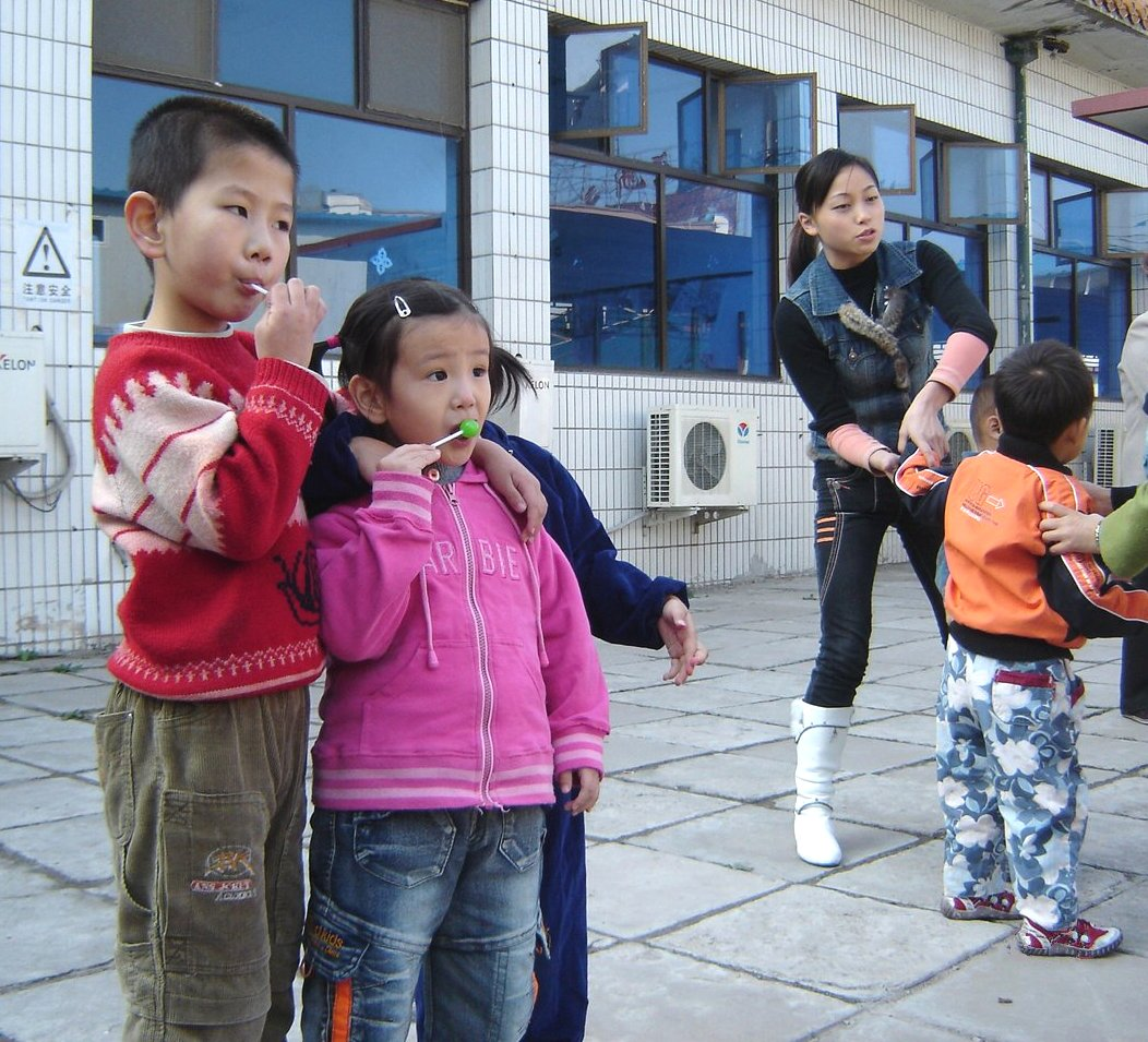 Feng Jia Wei (at left) and a friend at the Beijing Stars and Rain School. Wei figures prominently in the film Children of the Stars.